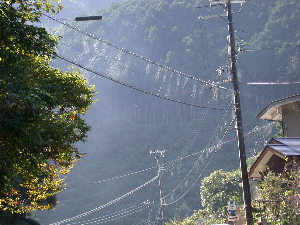 Nephila clavata (Nephilidae) Japanese name:jyorougumo Date;2007,10.15;ootou,Tanabe city, Wakayama prefecture, Japan Author;Keisotyo